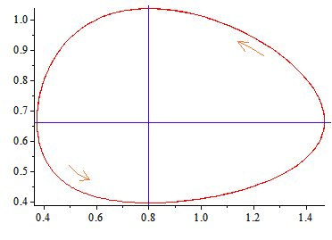 Phase diagram of a Lotka-Volterra model.